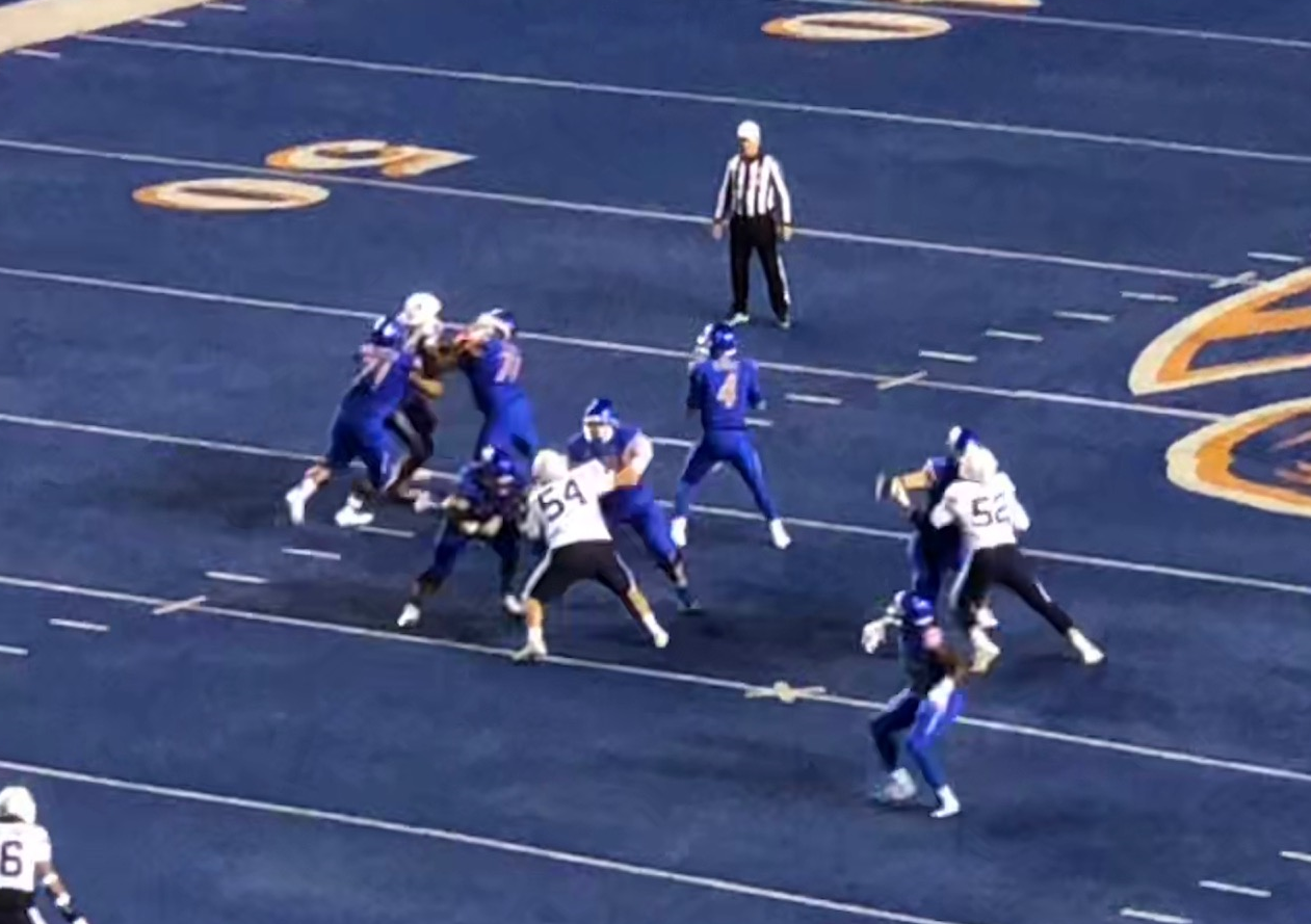 Boise State quarterback Brett Rypien (center #4) in the pocket against BYU during their game at Albertsons Stadium in Boise, Idaho on November 3, 2018.